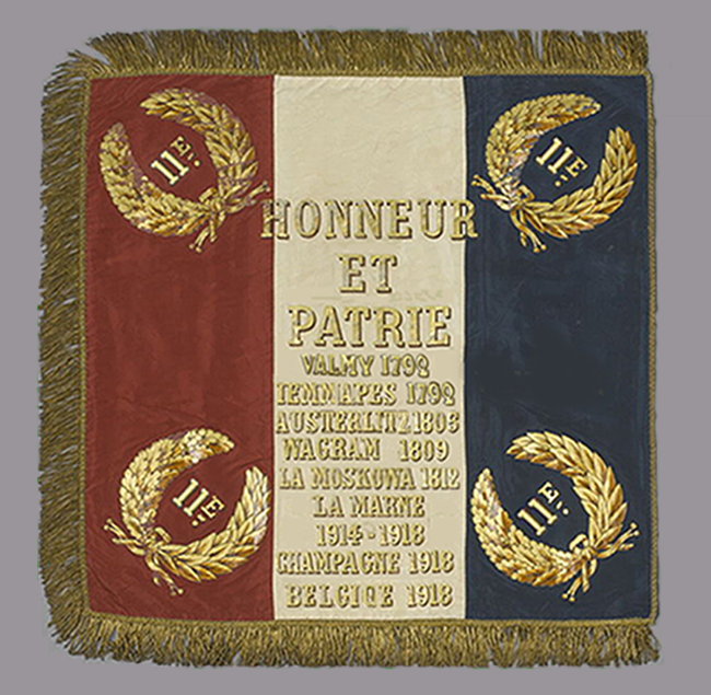 Colors of the french 11th Mounted Rifles Regiment